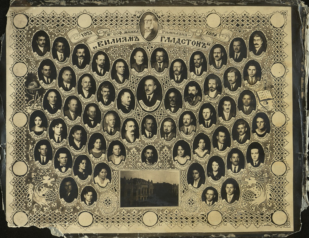 Third Sofia high school for boys, Sofia, Bulgaria